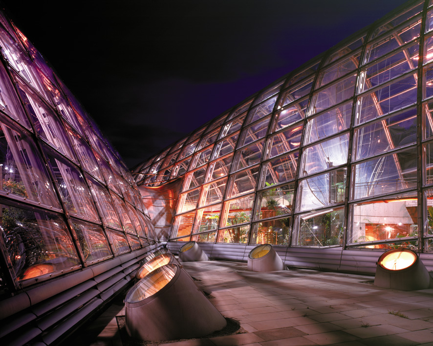 botanical garden, Graz